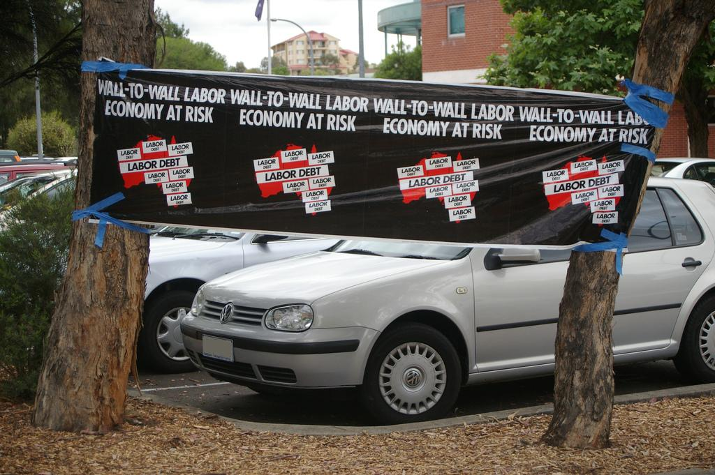 Liberal banners displayed at polling booths at the 2007 federal election - "wall to wall Labor" and "economy at risk". All states and territories have been held by Labor since early 2002.